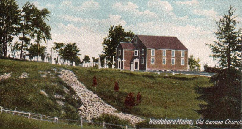 Old German Lutheran Church, Waldoboro, Maine. It was built in 1792.